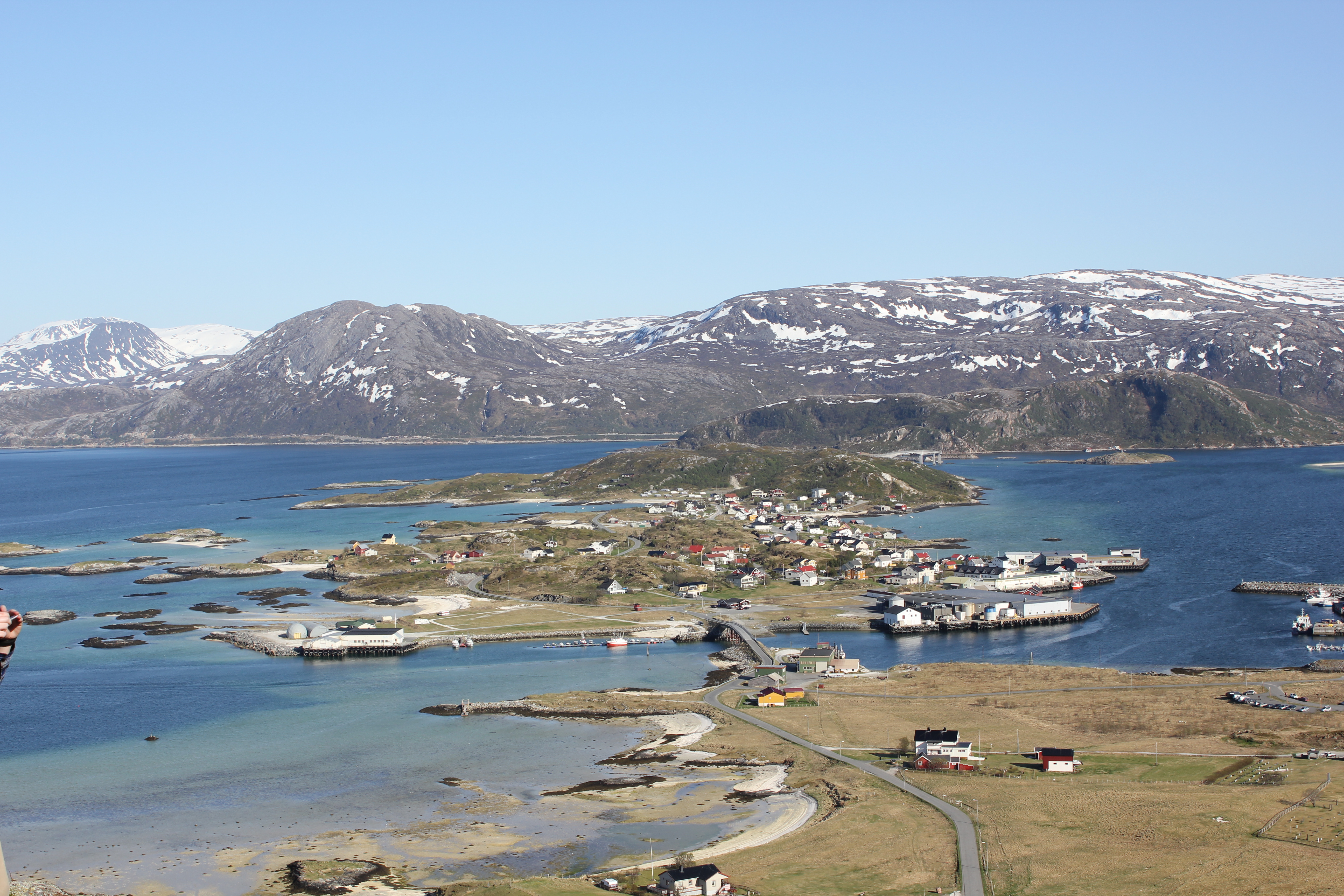 The Isles of Hillesøy and Sommarøy in Tromsø, Northern Norway